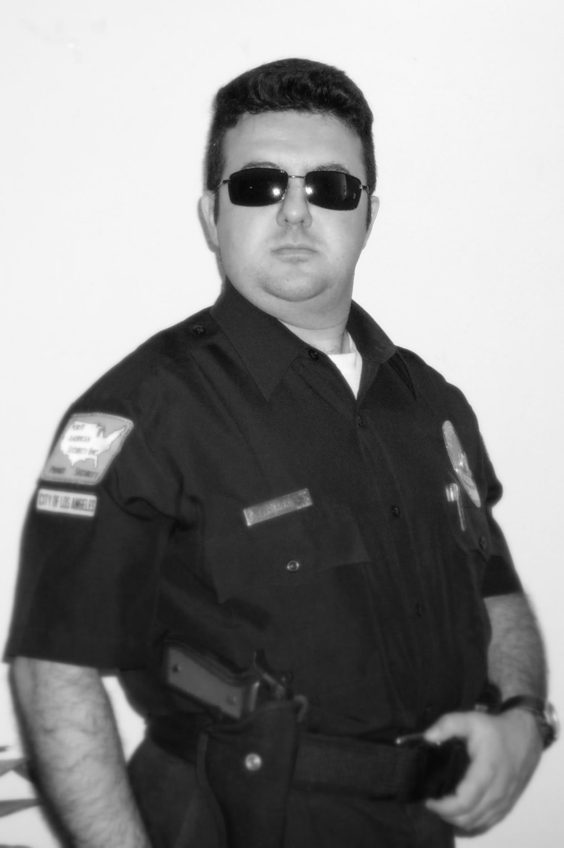 Security Guard of